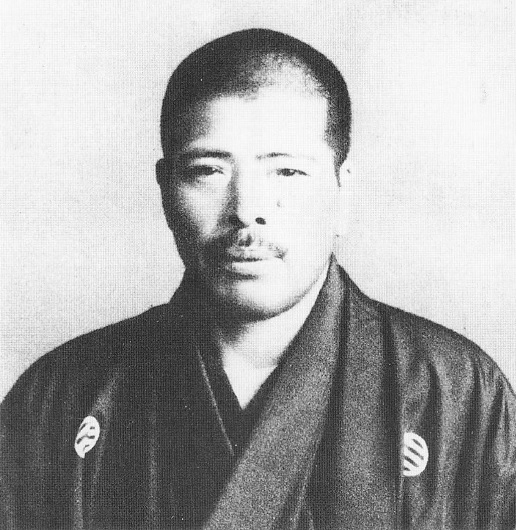 A Japanese judoka, Sanpō Toku at the age of 48.